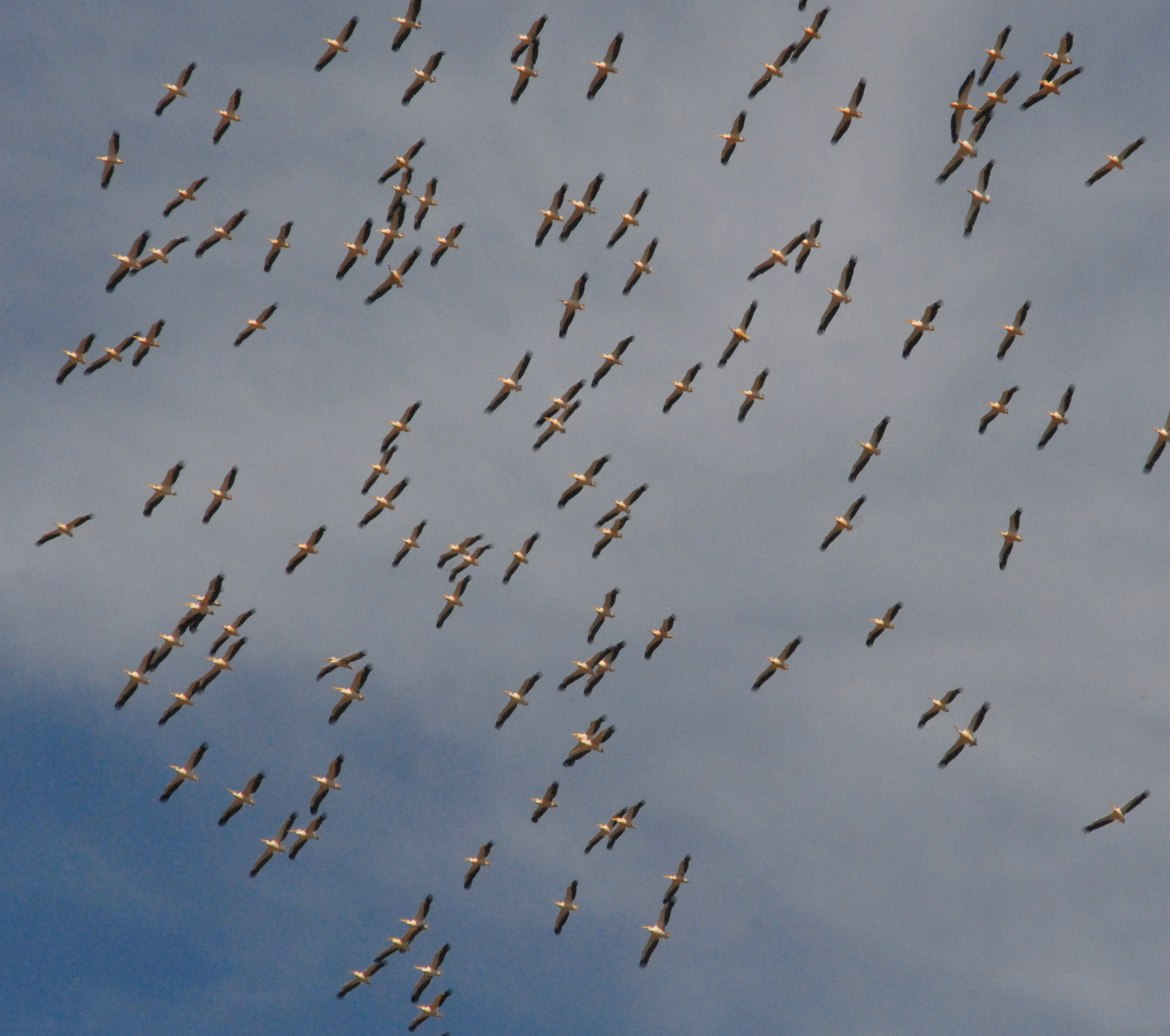 Wildlife and Plants of Israel